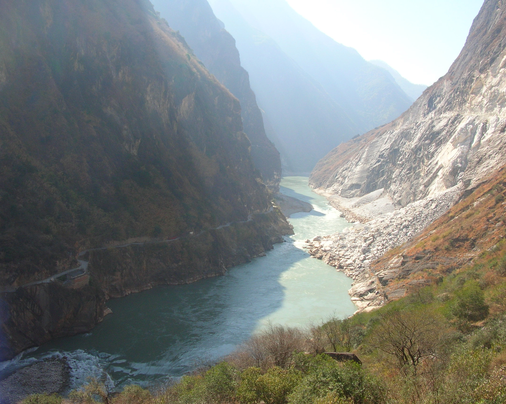 Tiger Leaping Gorge, taken by me.